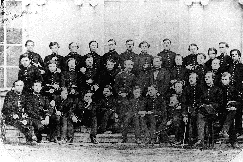 The twentieth graduating class of the Imperial School of Jurisprudence. Tchaikovsky is seated on the front row, in front of the gentleman wearing the bow tie. On his right is his classmate Vladimir Gerard. Photographed in Saint Petersburg, 29 May/10 June 1859.